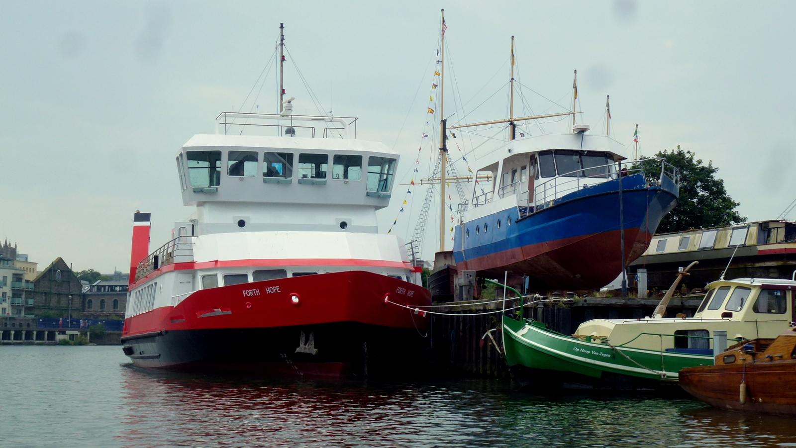 The MV Forth Hope, originally intended as a Portsmouth Harbour ferry but never complete as such and a long-time fixture at Abels Shipyard, is nearing completion as a medical ship for use around the world by the Vine Trust charity